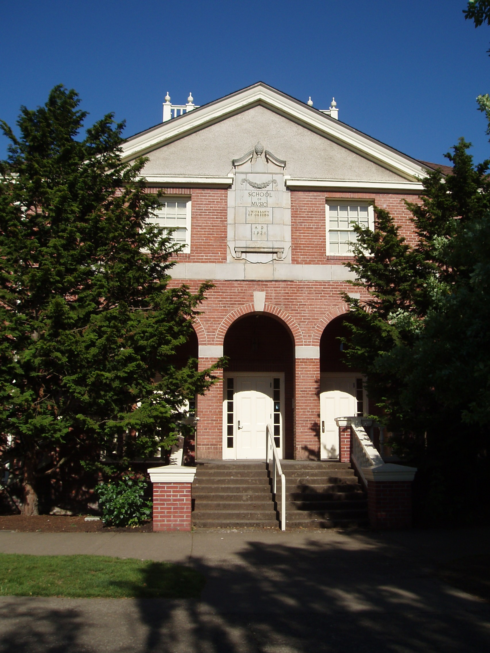 Front of Beall Hall, part of the MarAbel B. Frohnmayer Music Building, on the University of Oregon campus in Eugene, Oregon.